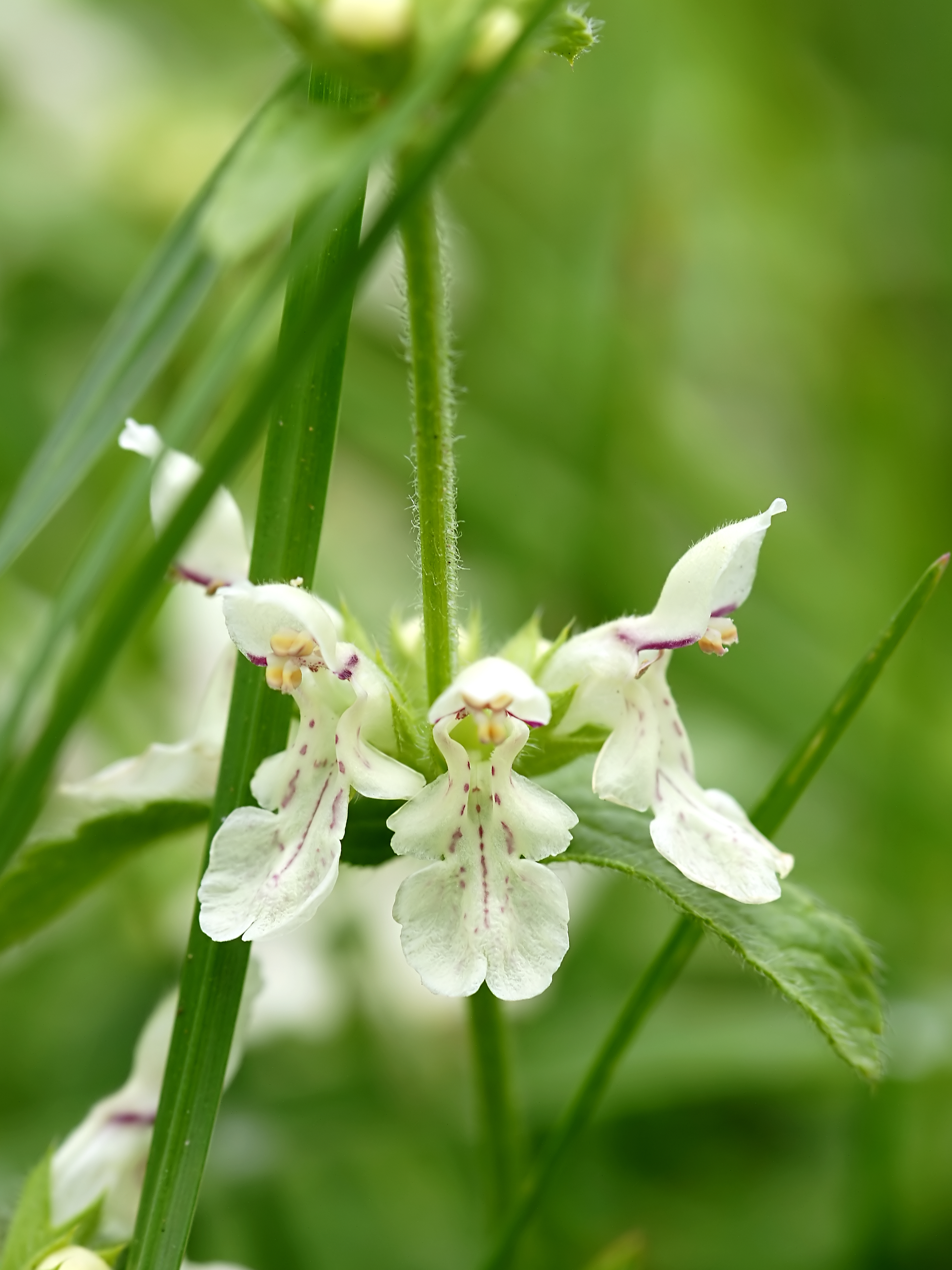 Stiff Hedgenettle close to Pleuville, Charente, France